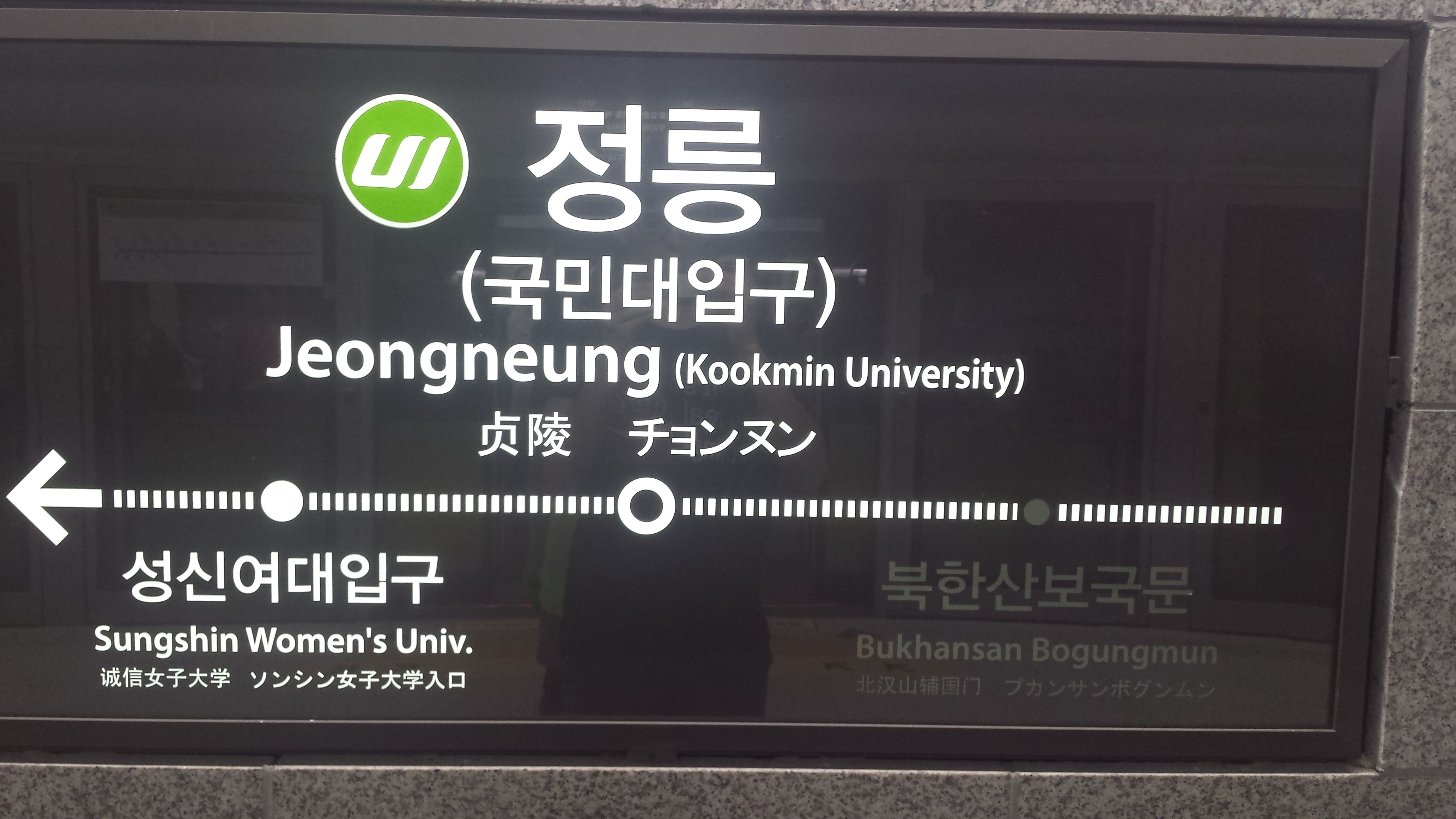 Jeongneung station sign